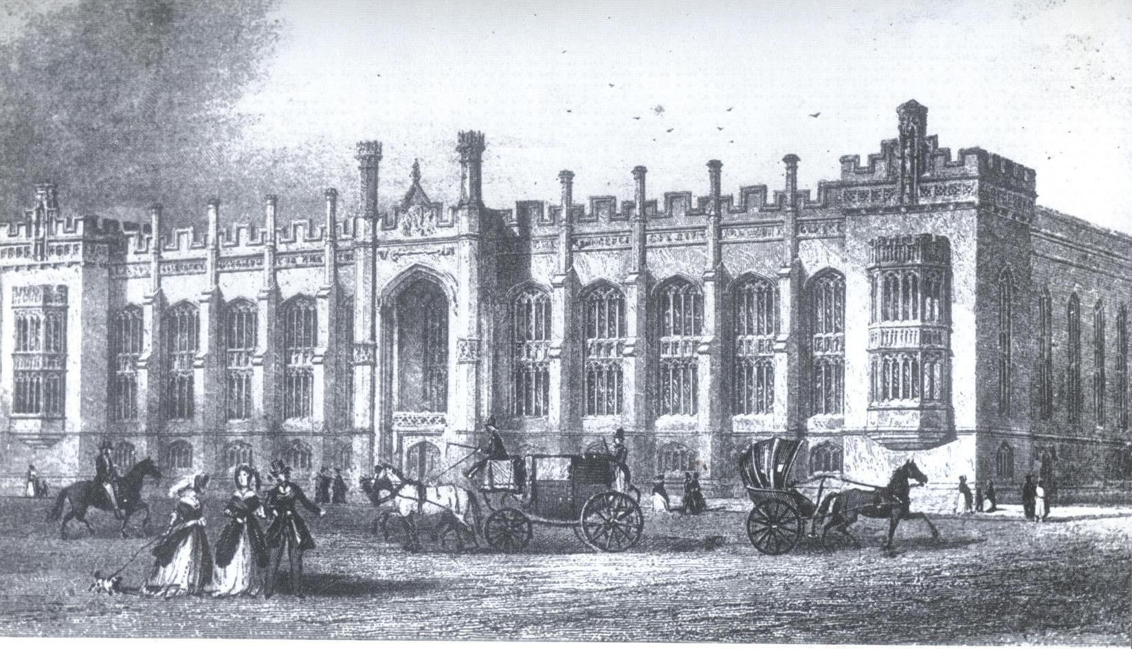 Design awarded 1st prize by the Committee of Management of the Liverpool Collegiate Institution